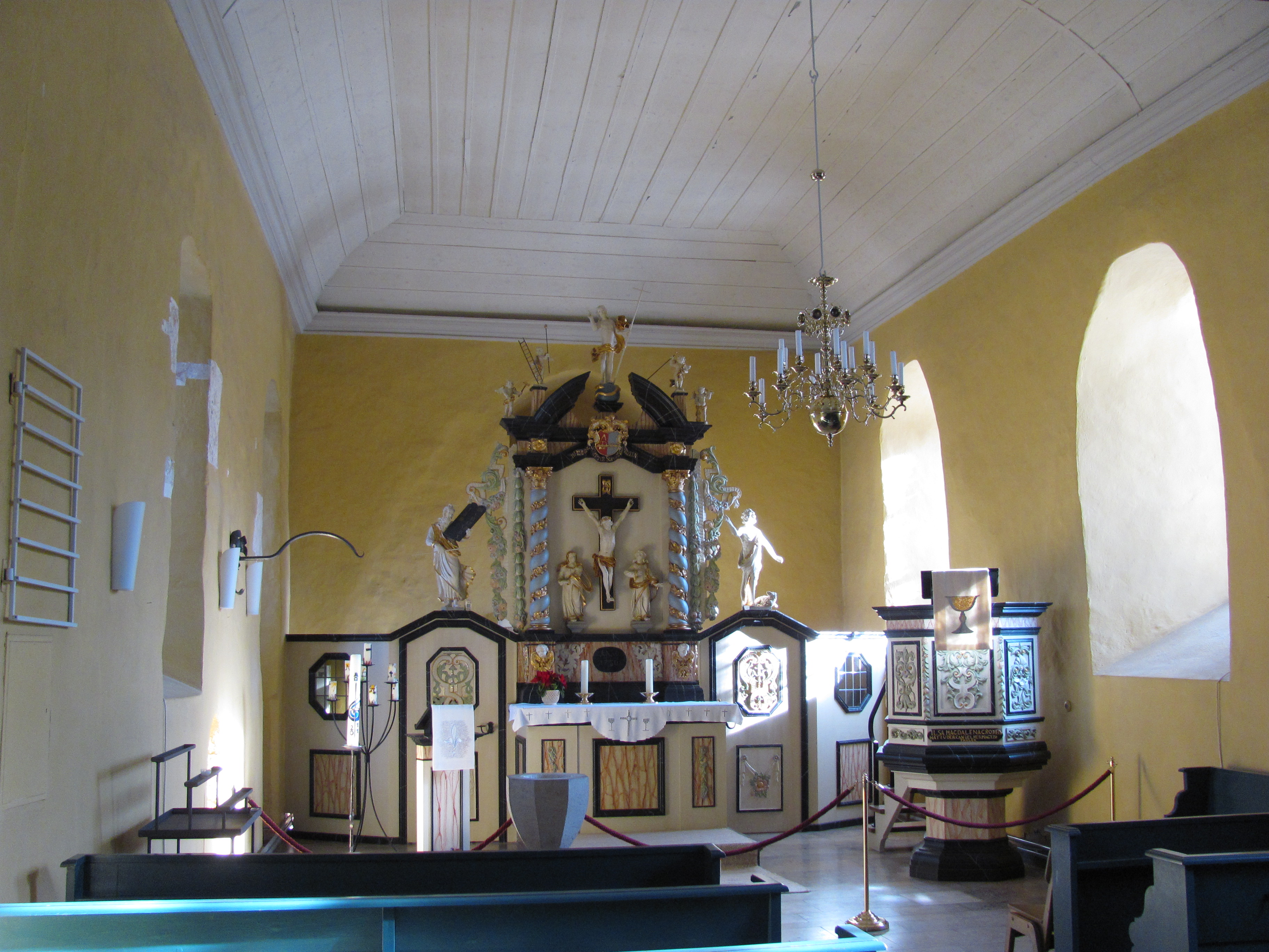 Protestant Church, Holle-Grasdorf, near Hildesheim, Lower Saxony, Germany.